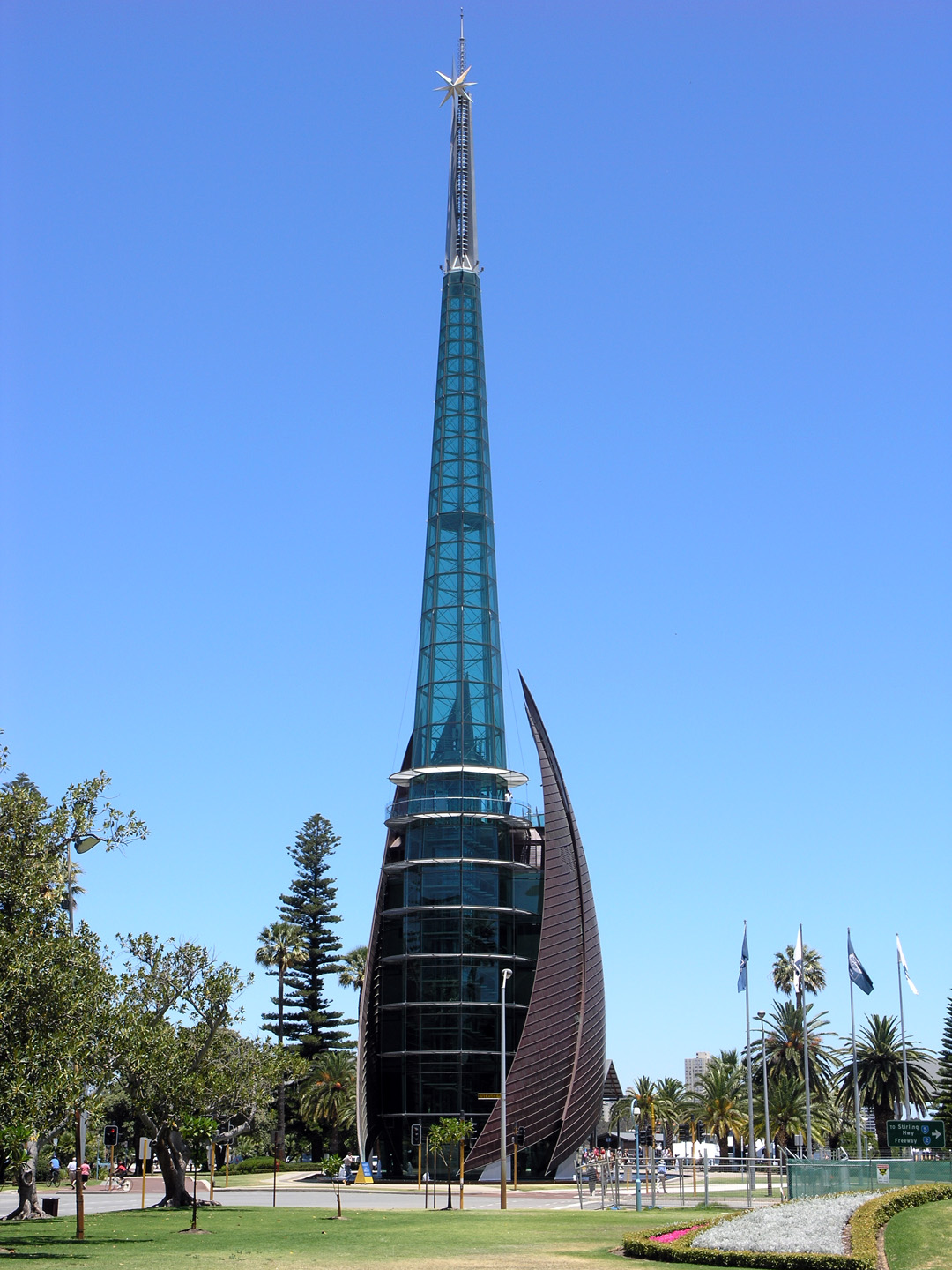 Swan Bells, Perth, Western Australia. Taken by myself.